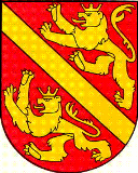 Blazon of Diessenhofen, Canton of Thurgau, SwitzerlandEsperanto: Blazono de Diessenhofen, Kantono Turgovio, Svislando